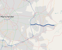 The M67 within the Manchester urban area. This map may be incomplete, and may contain errors. Don't rely solely on it for navigation.